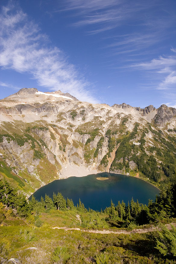 Doubtful Lake as seen from Sahale Arm, in the North Cascades of Washington state